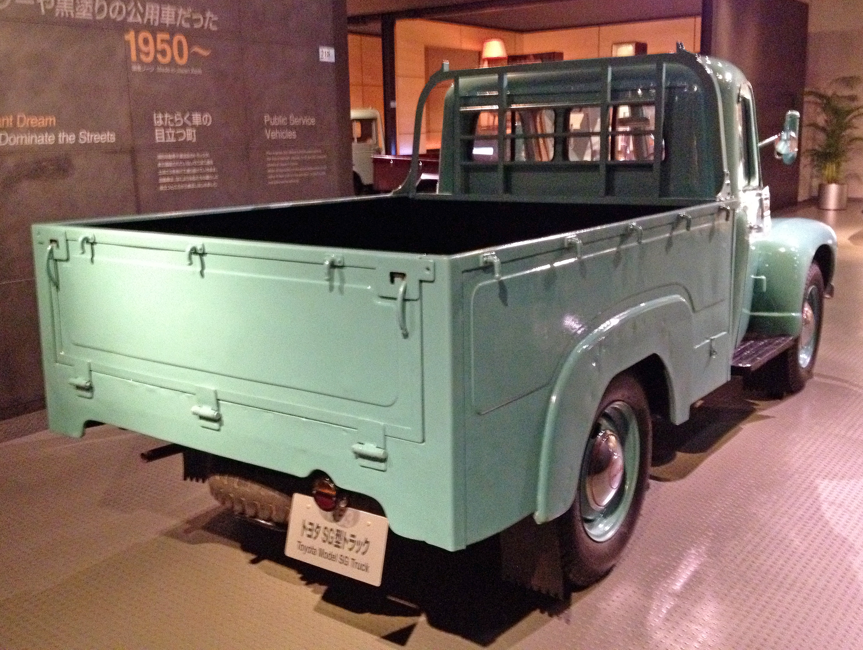 Rear view of Toyota Model SG Truck, 1953